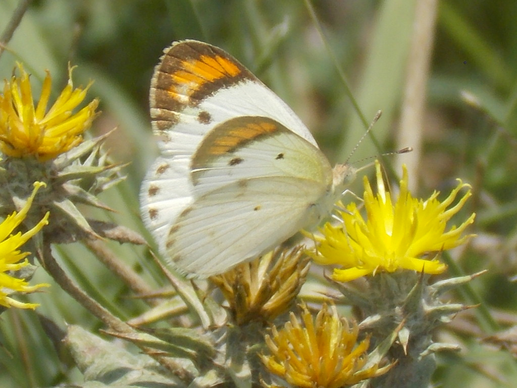 Colotis etrida (Little Orangetip): Family: Pieridae, Subfamily: Coliadinae, Location: Taxila, Distt Rawalpindi, Punjab, Pakistan. May 2014